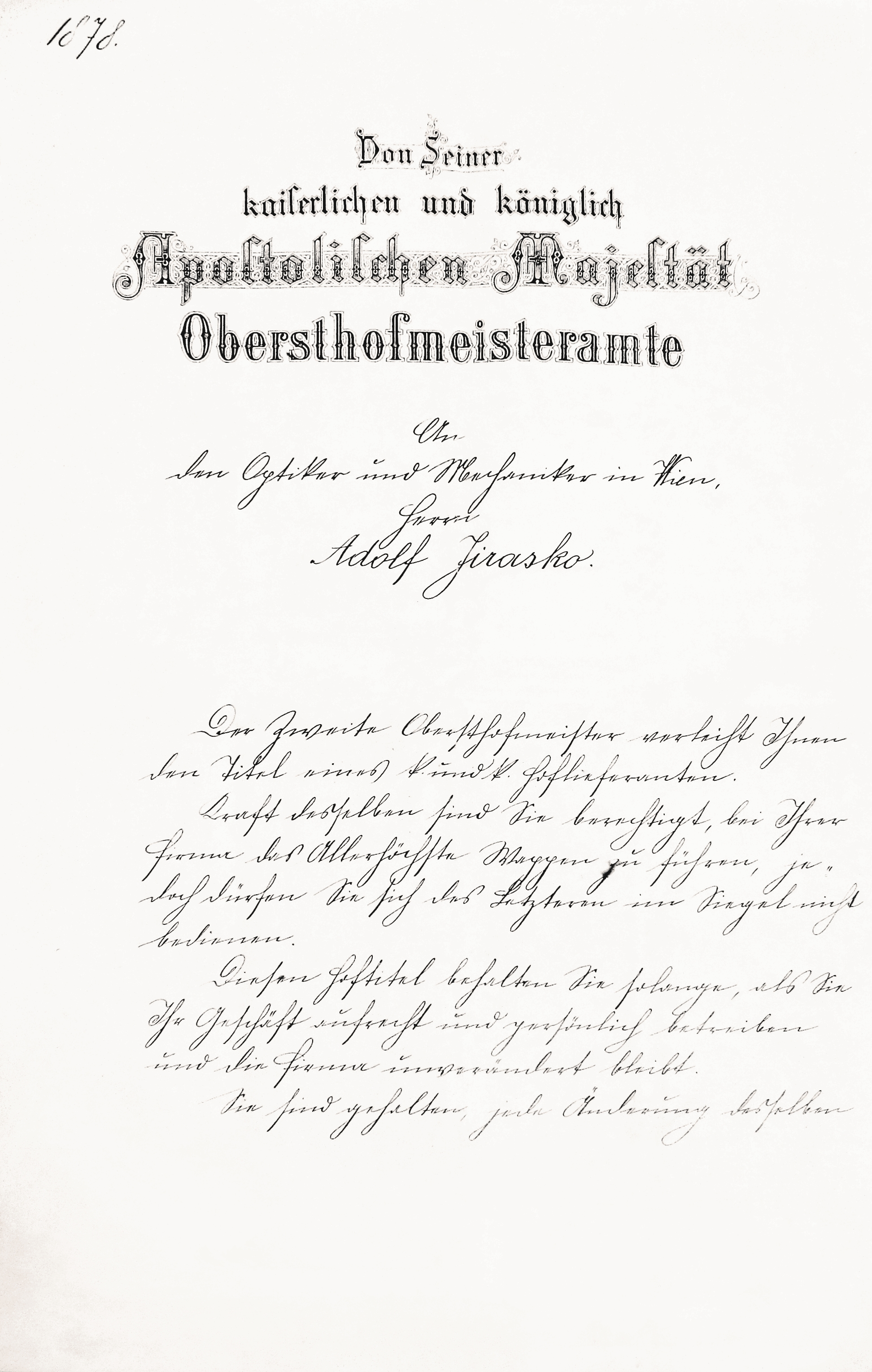 Imperial Warrant issued to the optician Adolf Jirasko as Purveyor to the Imperial and Royal Court, 2 March 1898. Image taken at an exhibition at the Wiener Neustadt civic archive.